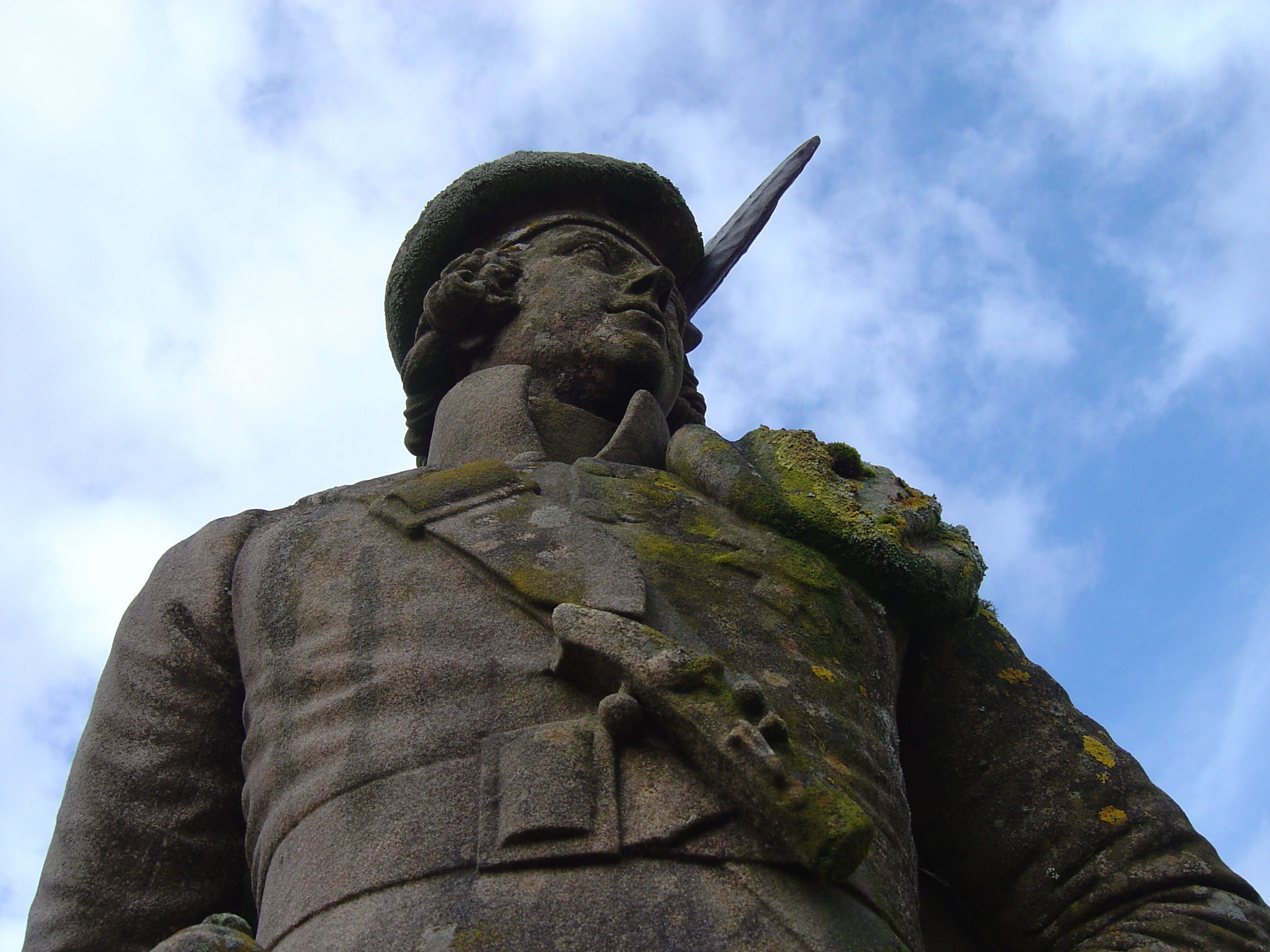 A close up picture of the Unknown Highlander Statue on top of the Jacobite Monument in Glenfinnan, Scotland.